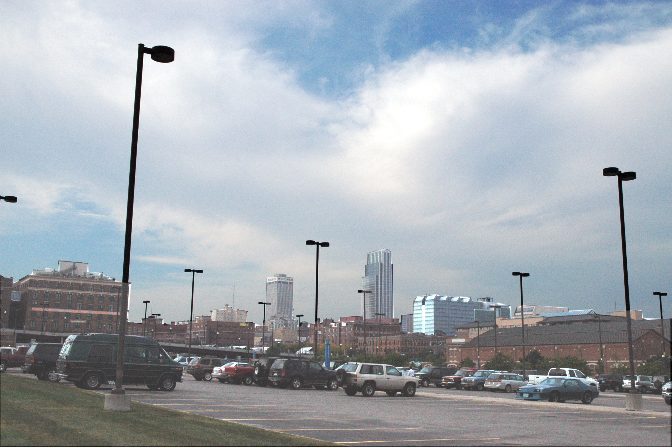 Omaha, Nebraska skyline, as viewed from the south east.